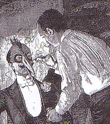 Carnaval de Paris, February 1891, preparations for an evening of heads.